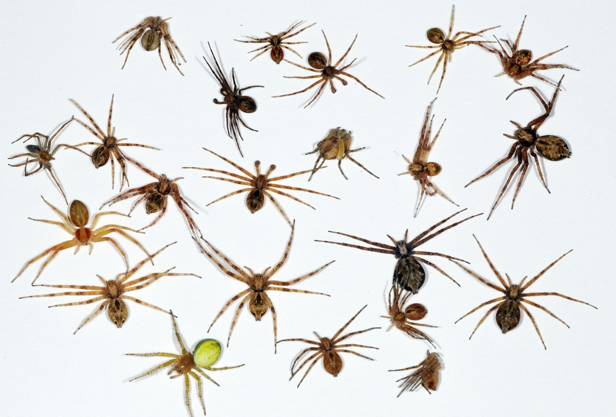 Stock of paralyzed spiders from a clay nest of Sceliphron curvatum, Wiesbaden, Germany